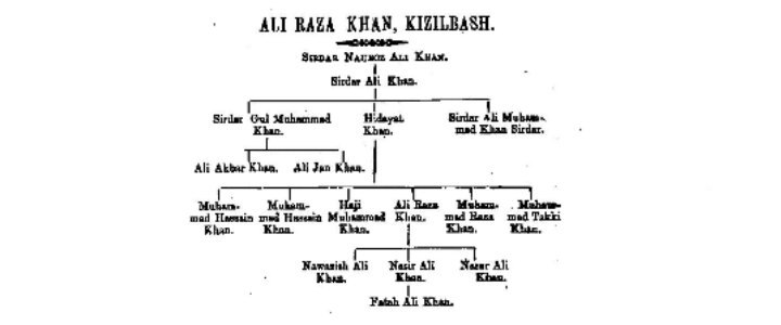 The geanology of Punjabi Qizilbash Family (1862)